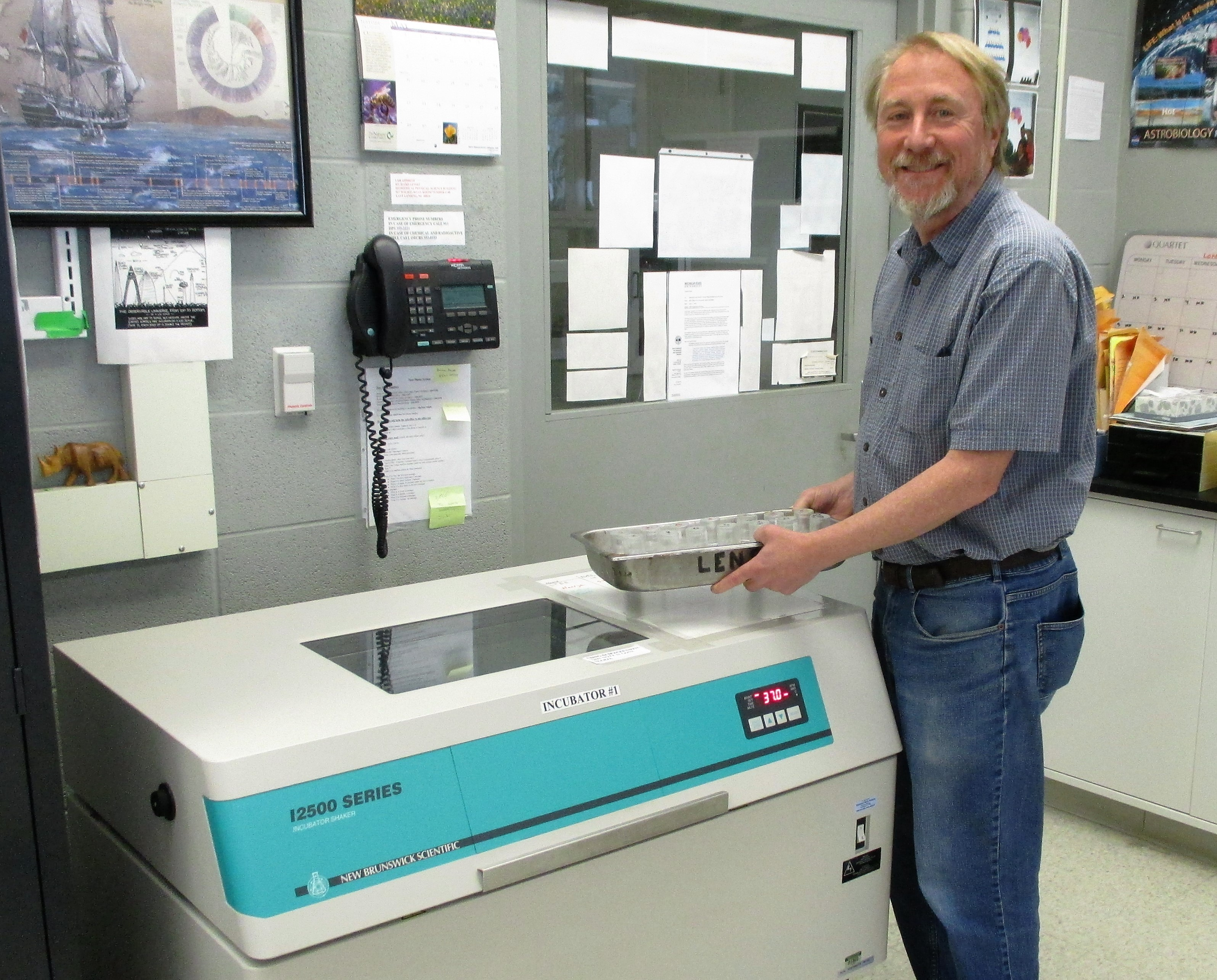 Richard Lenski with a tray of flasks from the long-term evolution experiment in his lab at Michigan State University on May 26, 2016.